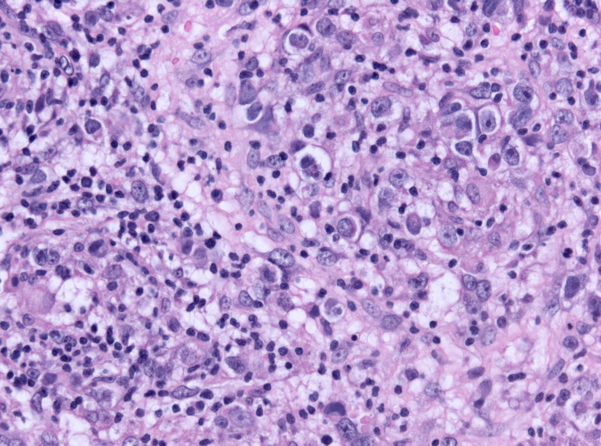 Histology of a Germinoma (HE stain, x200 magnification)